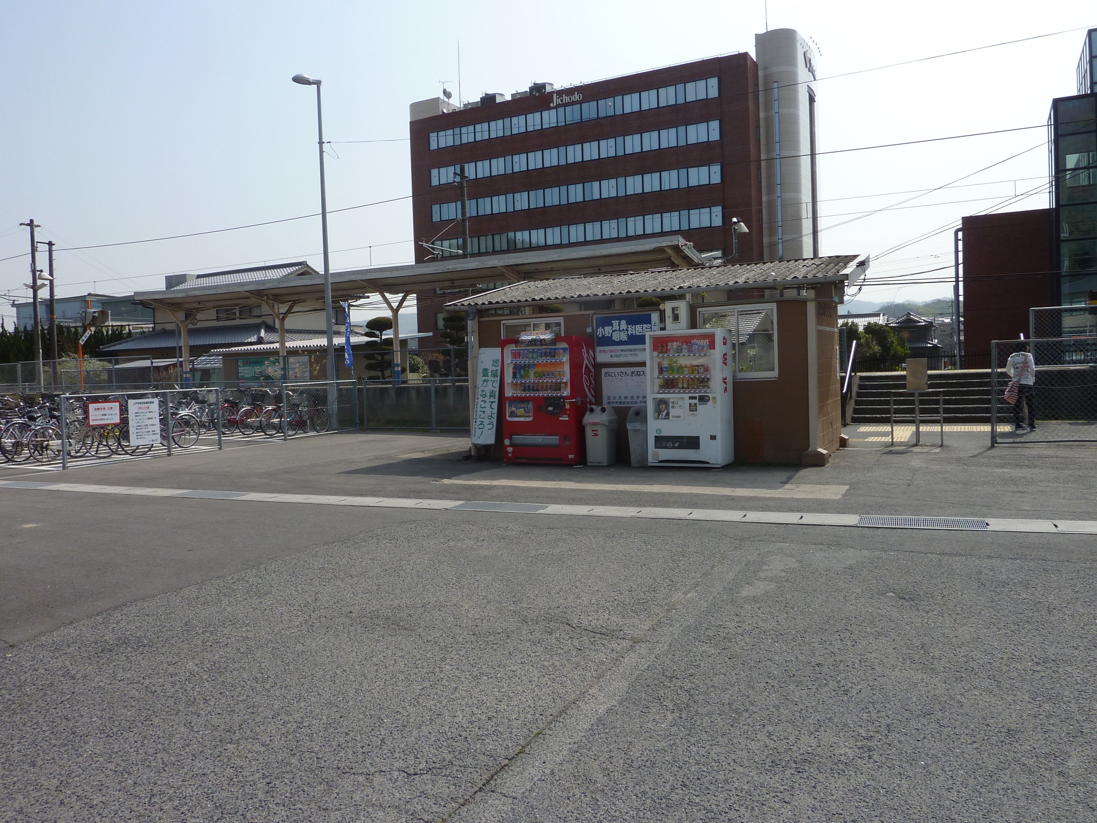 Kami-Tode Station on Fukuen Line